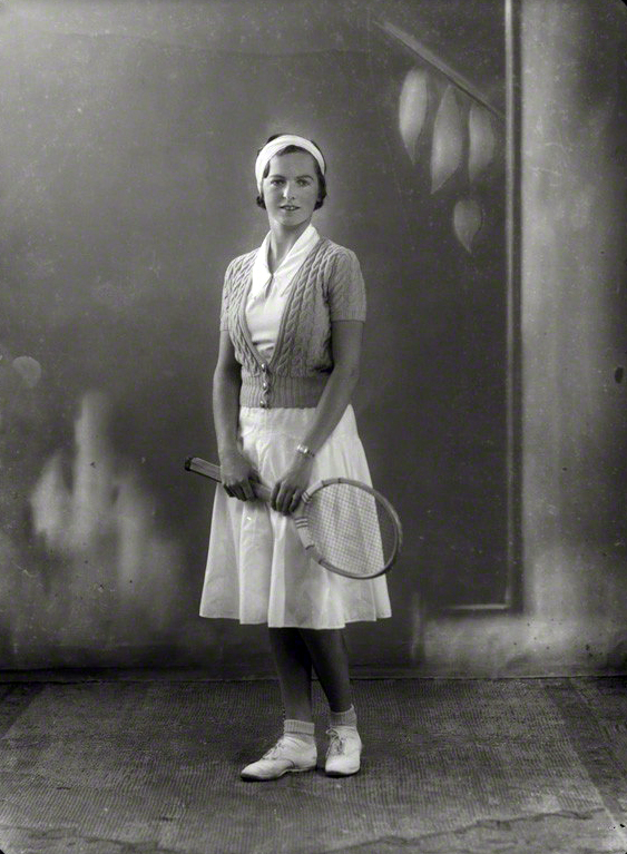 English tennis player Freda James by Bassano, whole-plate glass negative, 29 April 1933